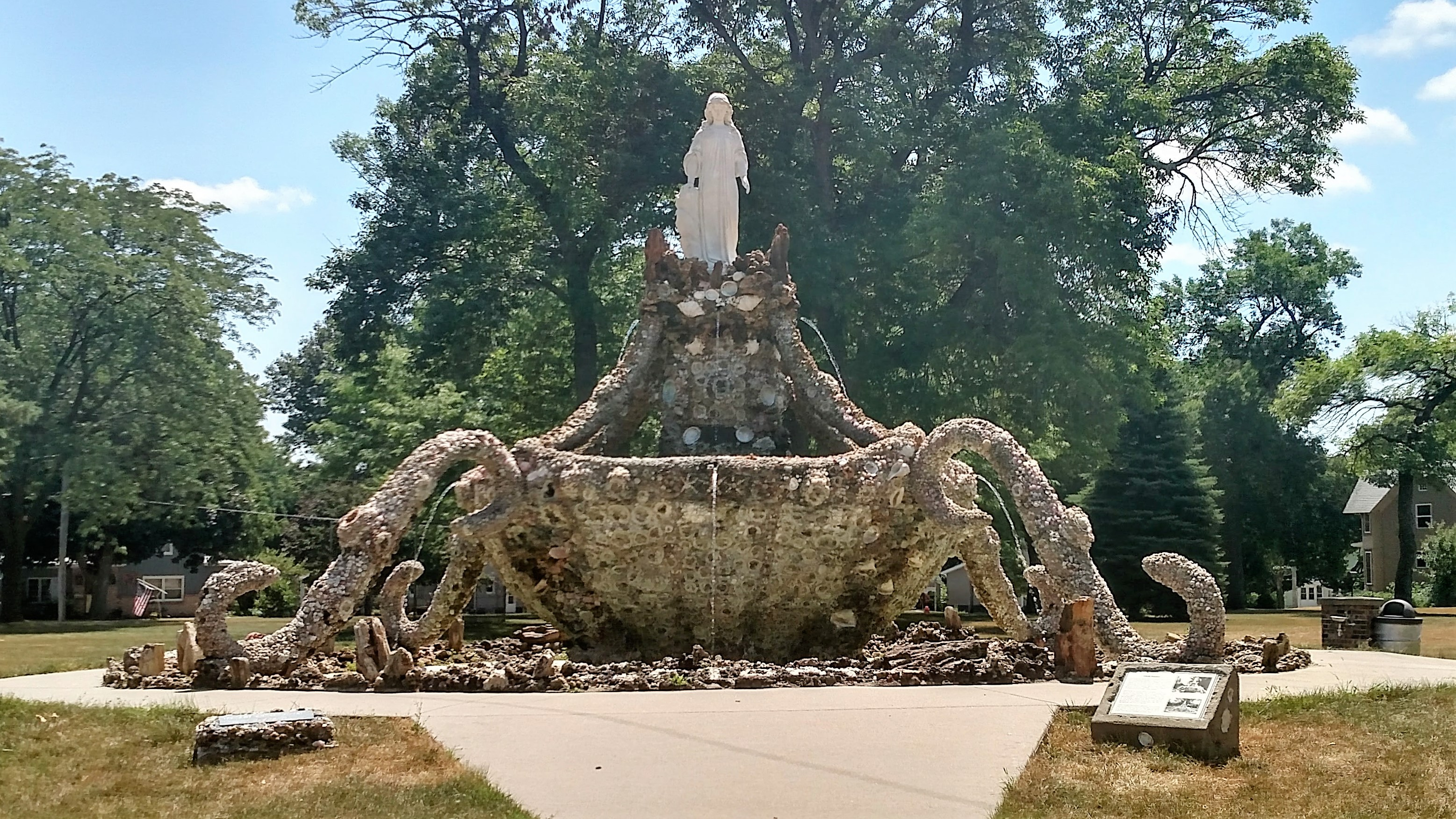 Liberty Fountain was created by Father Paul Dobberstein in 1918 in John Brown Park in Humboldt, IA